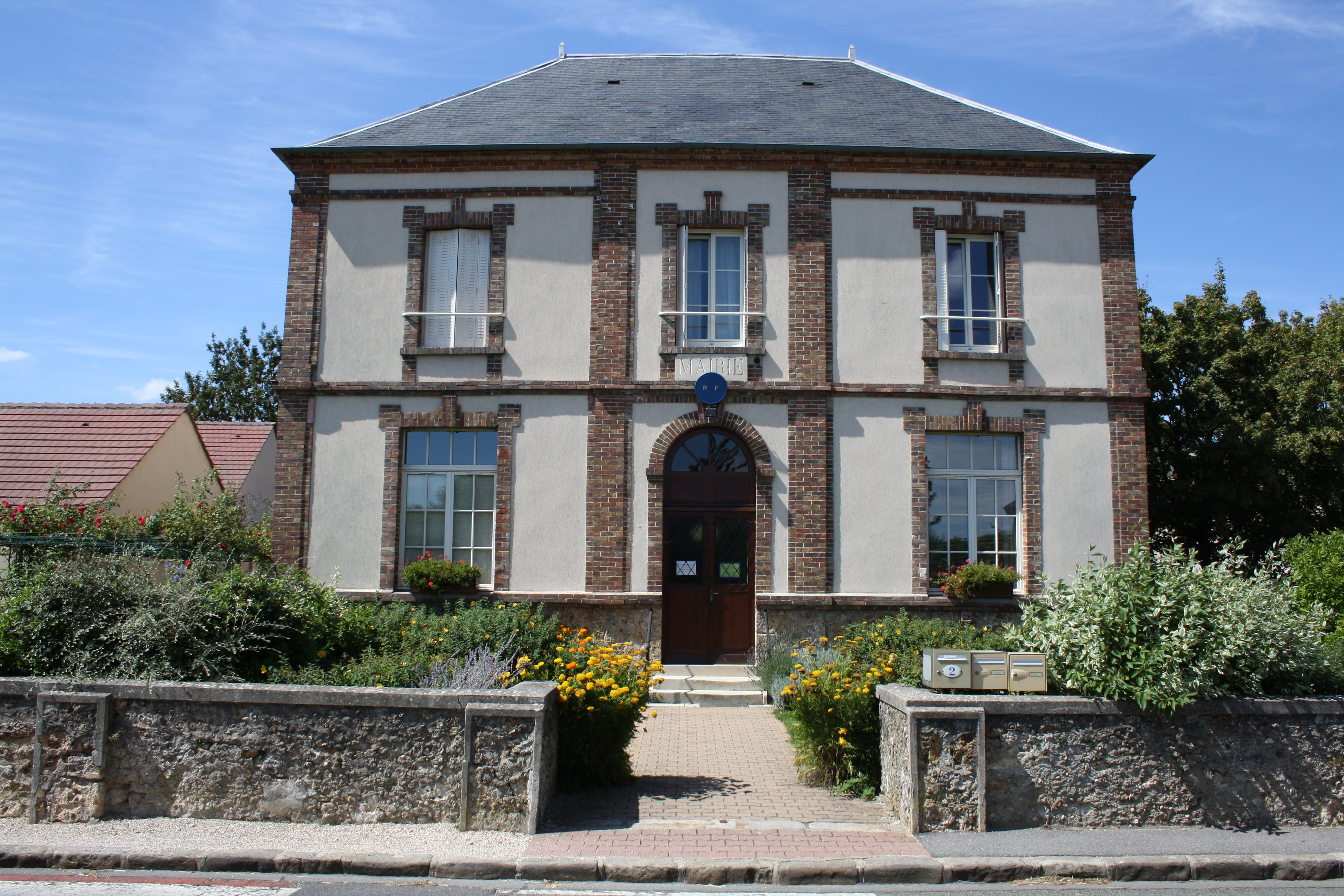 Boullay-les-Troux in France.